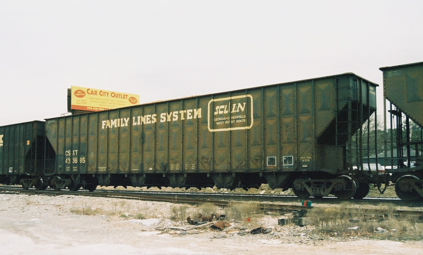 hopper car